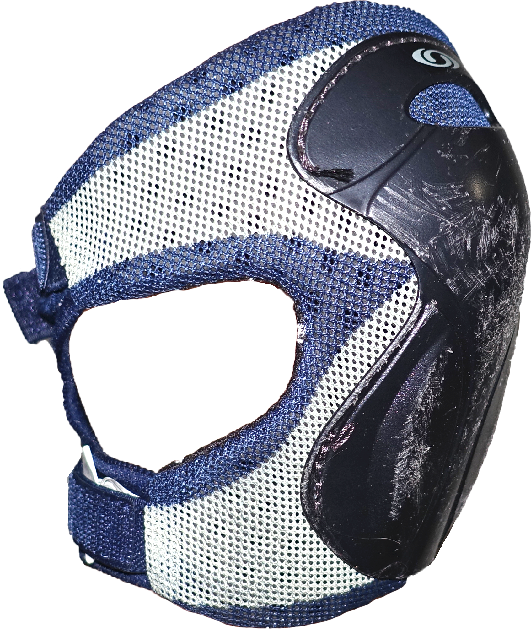 Salomon knee pad for roller skating.